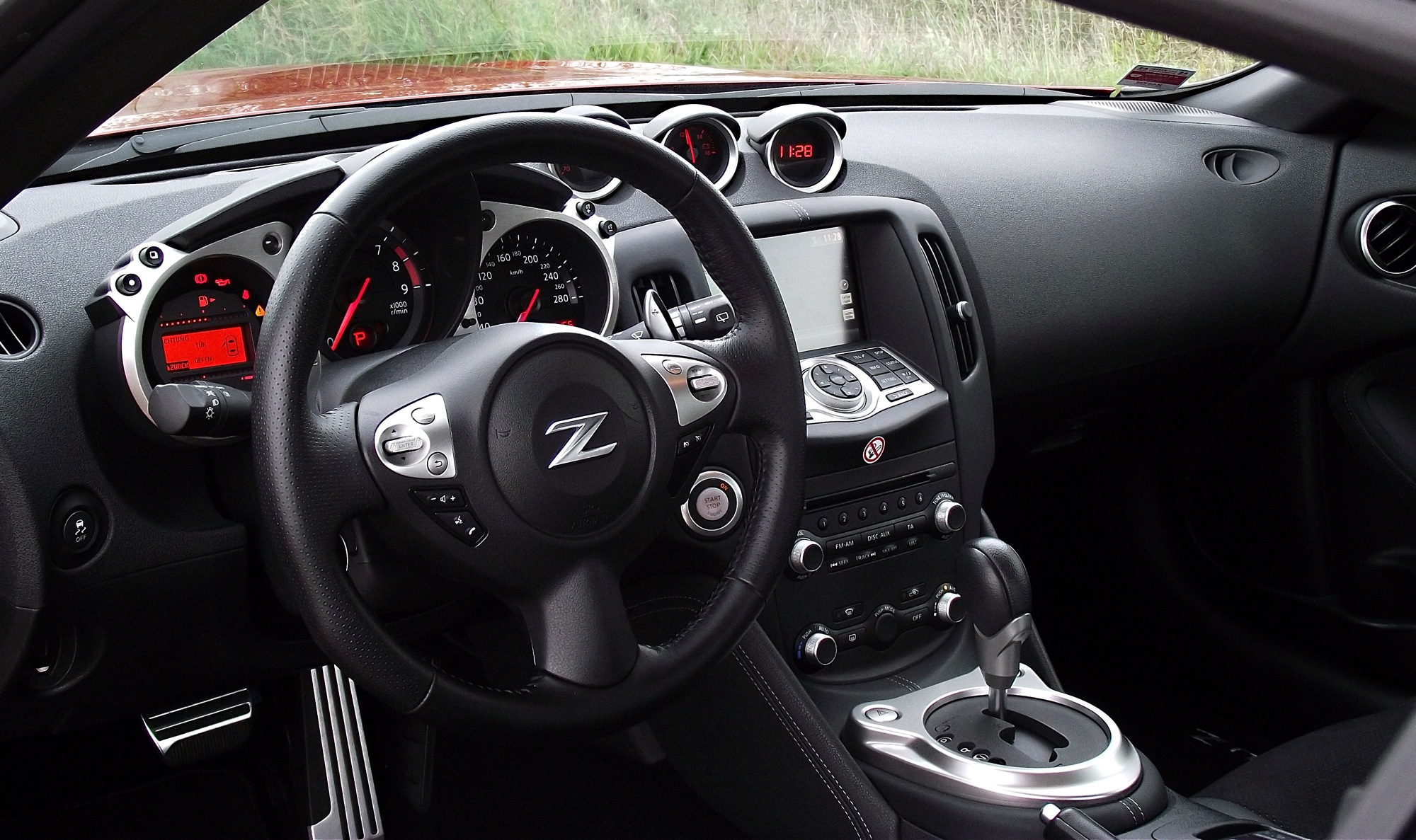 Nissan 370Z Z34 Coupé Automatic Transmission 2013 Cockpit Interior